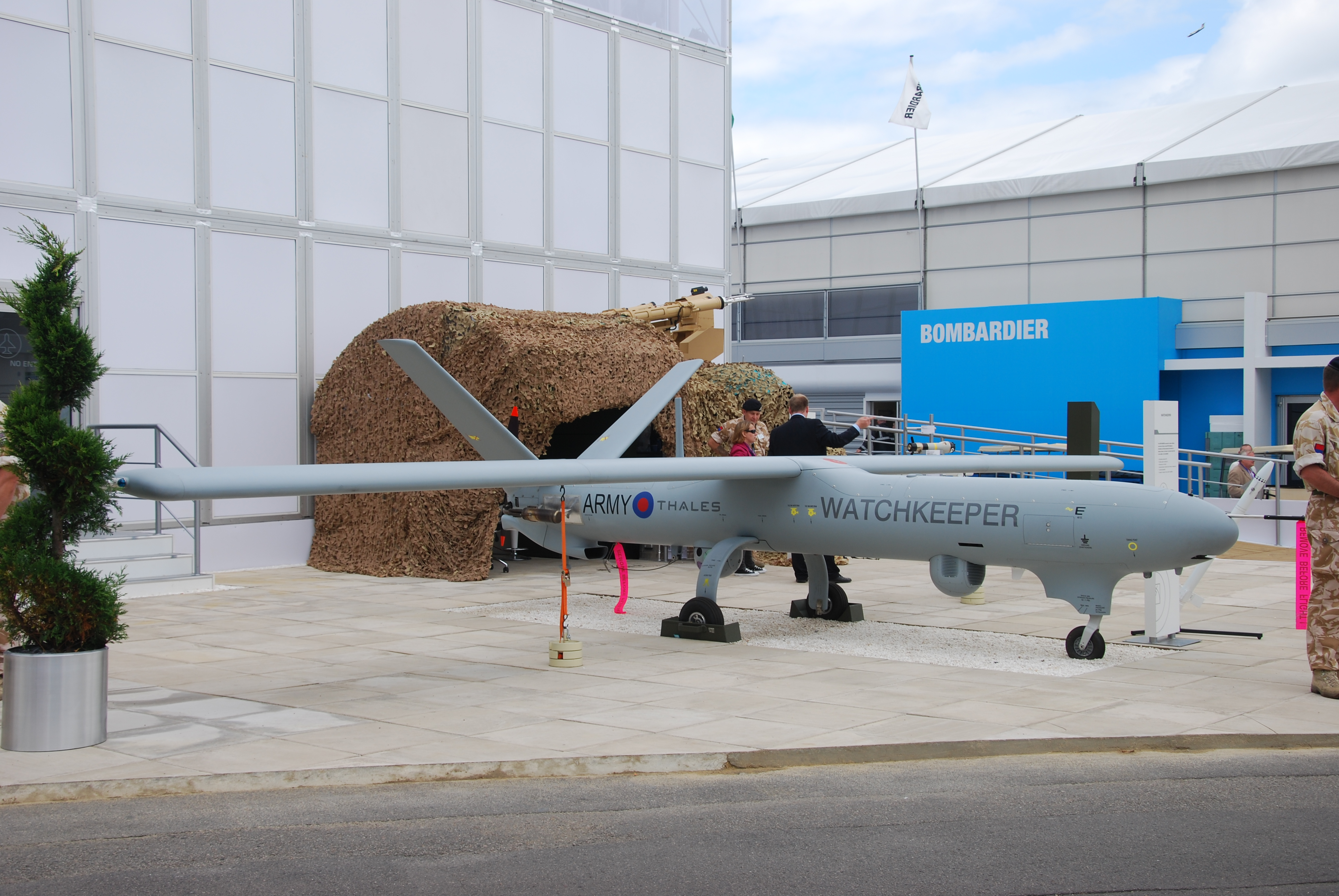 Watchkeeper WK450 UAV of the British Army at Farnborough International Airshow 2010.